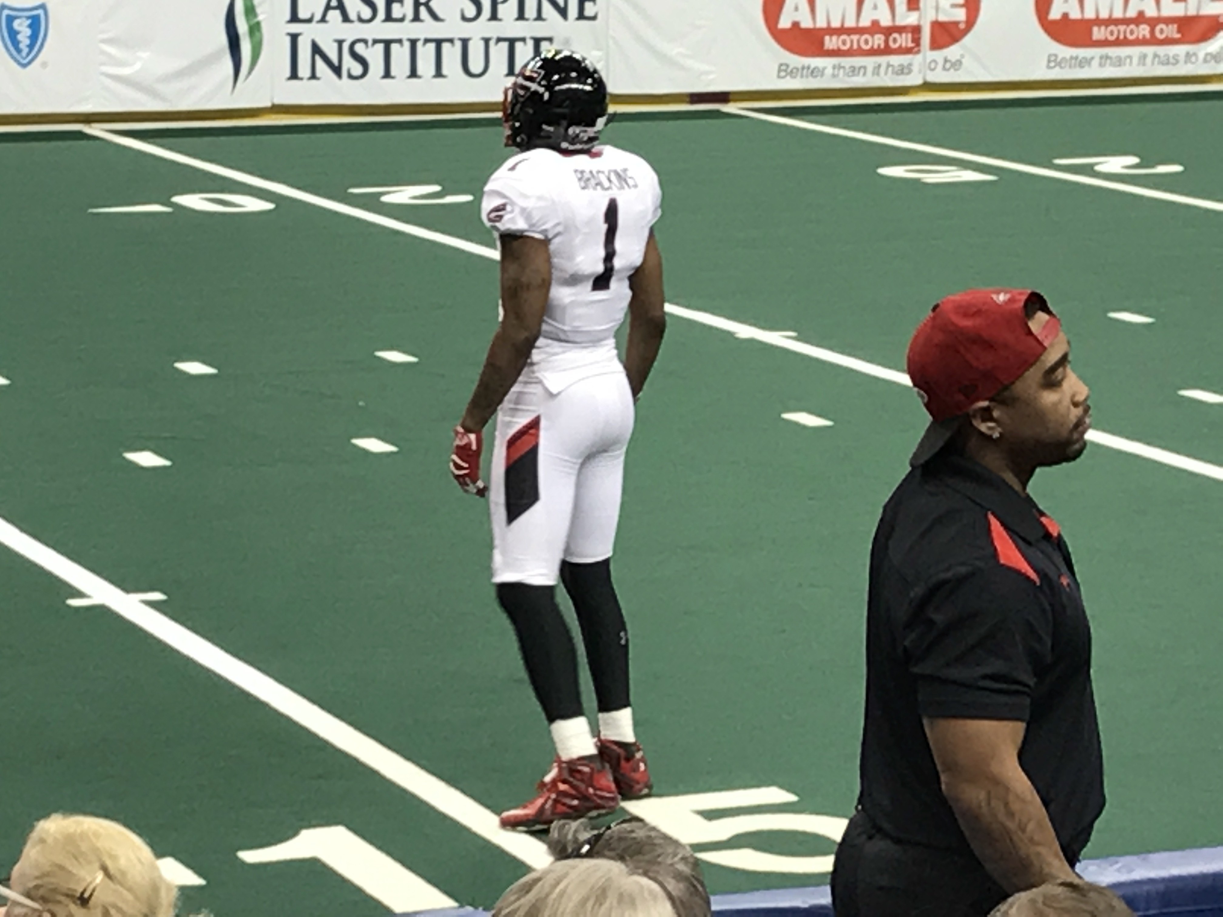 Larry Brackins before a kickoff